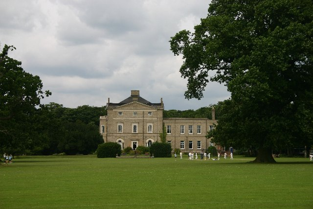 Moreton Hall School. A private school in Bury St Edmunds